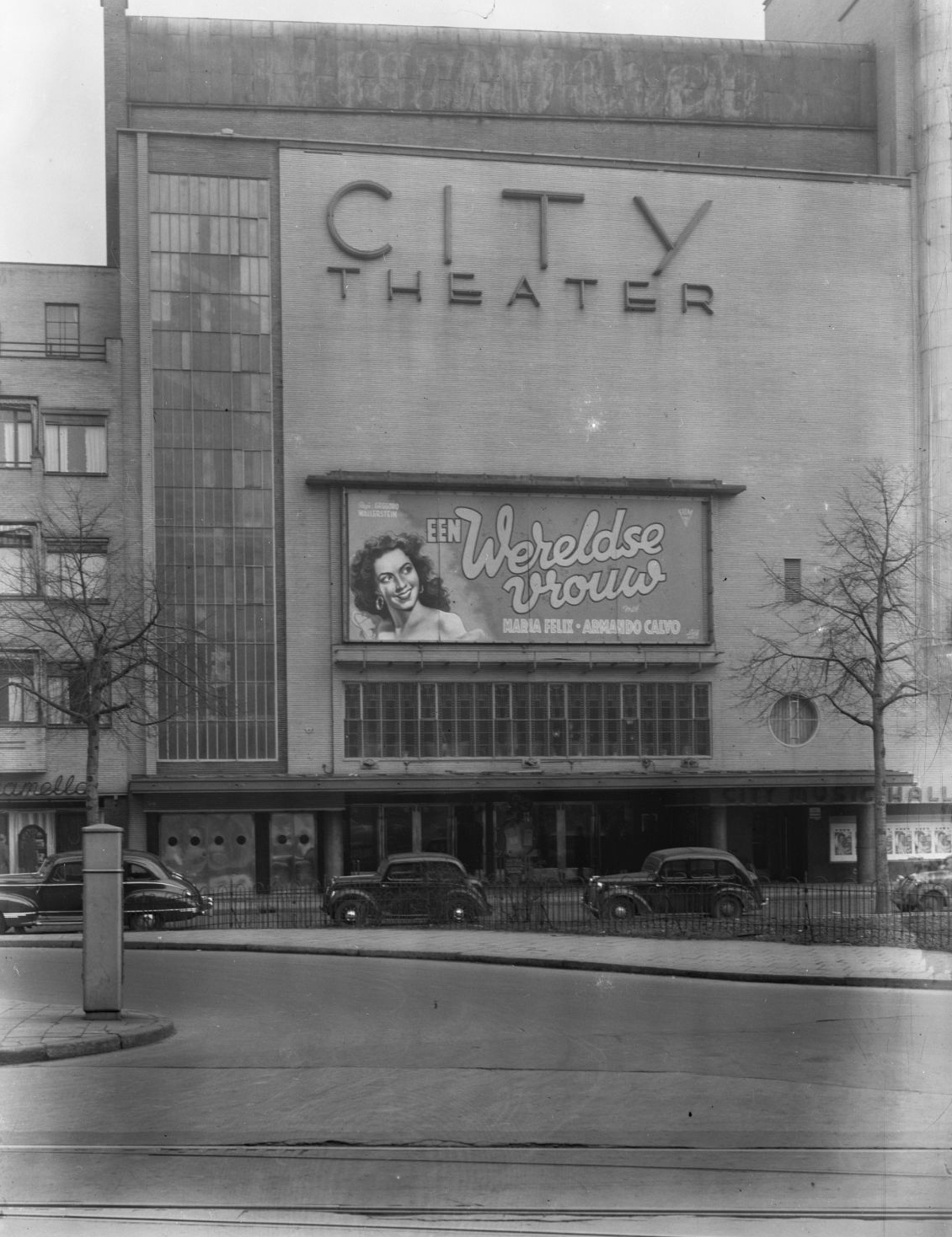 A sign, showing a movie by María Félix, "La mujer de todos" taken at Kleine-Gartmanplantsoen in Amsterdam at the City Theater on March 1948.